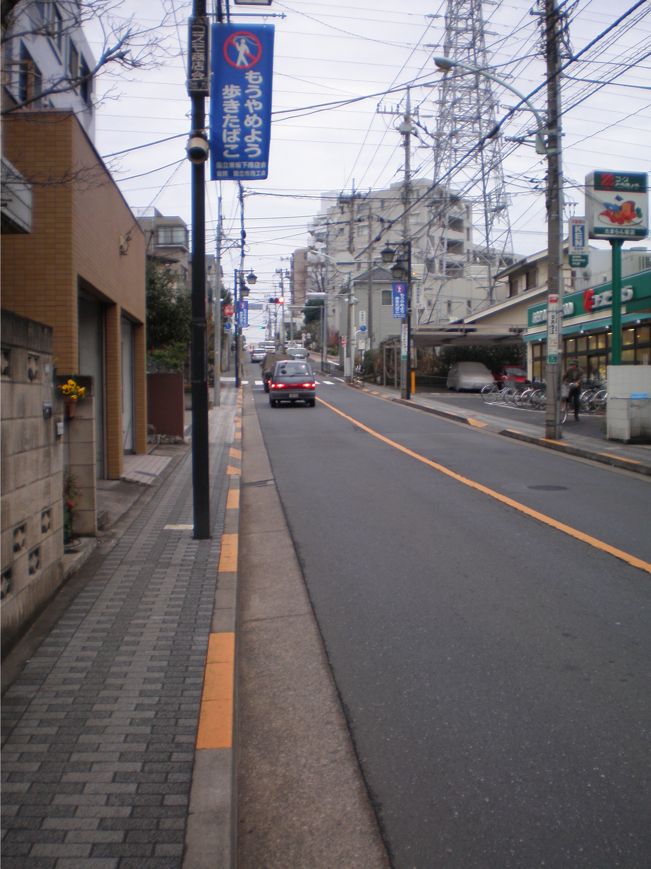 Tamaran Saka from the Bottom of Hill in Fuchu, Tokyo.